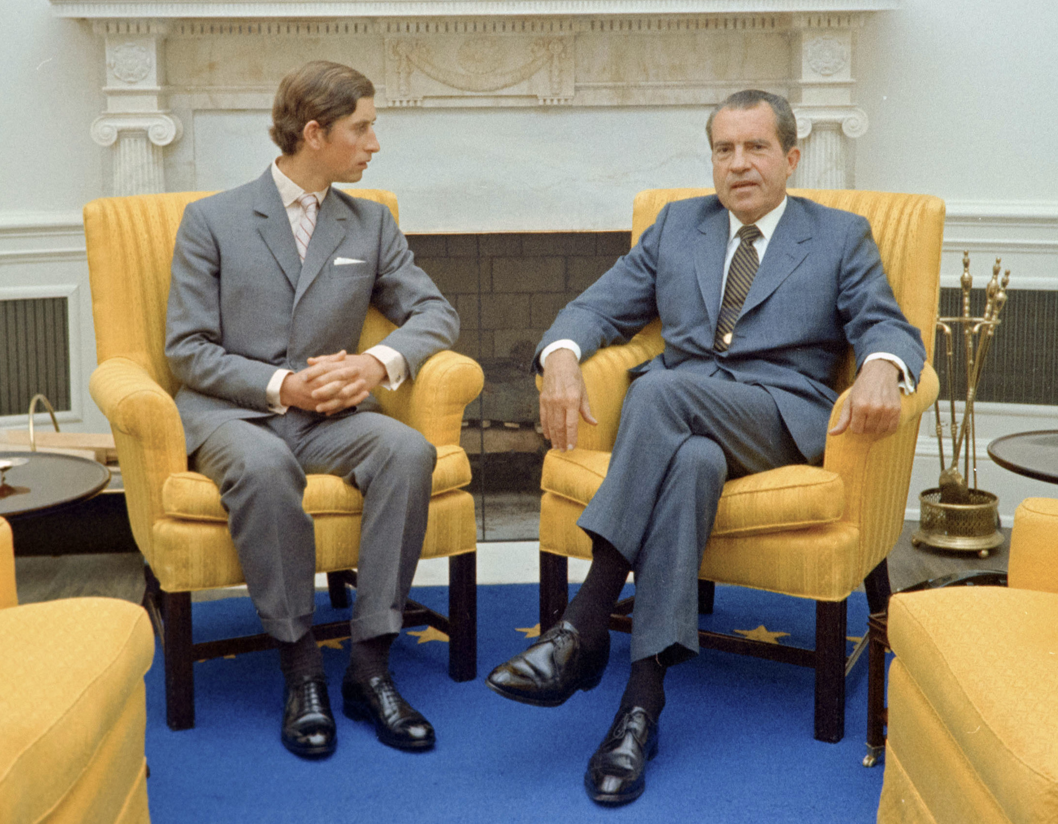 July 18, 1970. President Nixon with Charles, Prince of Wales in the Oval Office.